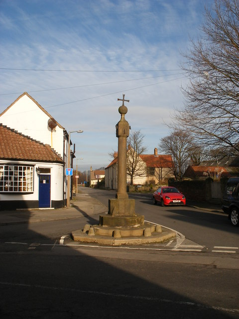 Barlborough Village Cross